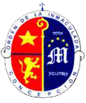 escudo de la oic